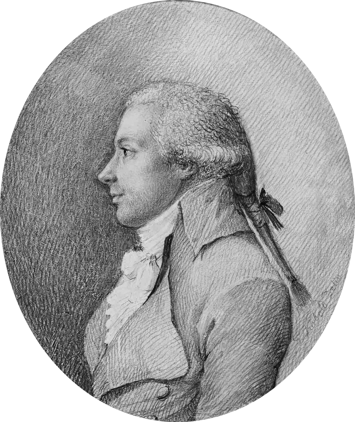 Friedrich Ludwig von Bohlen (Gnatzkow, 1760-1828 Carlsburg) pencil and watercolour on gessoed card ovals 6.4 cm signed r.: G. Kobold delin